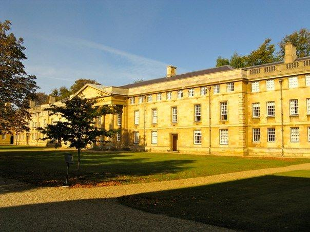 Chapel and Domus of Downing College.